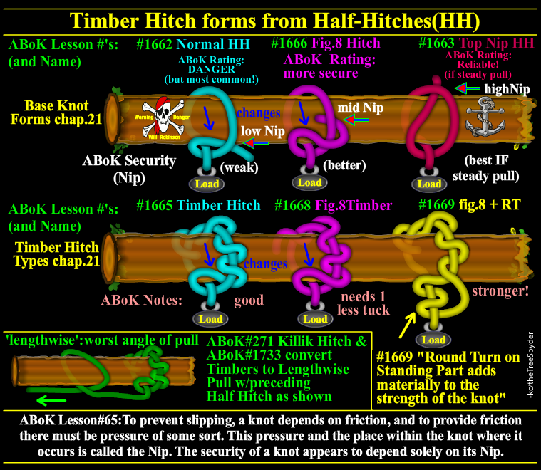 Ashley Book of Knots 3 variants of right angle Half Hitches at differnt Nips of security, follows ABoK into Timber Hitch types shows how to for more secure, stronger and different angle of pull. Closes with ABoK stating importance of Nip.